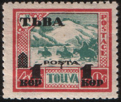 Stamp of Tuva, 1932